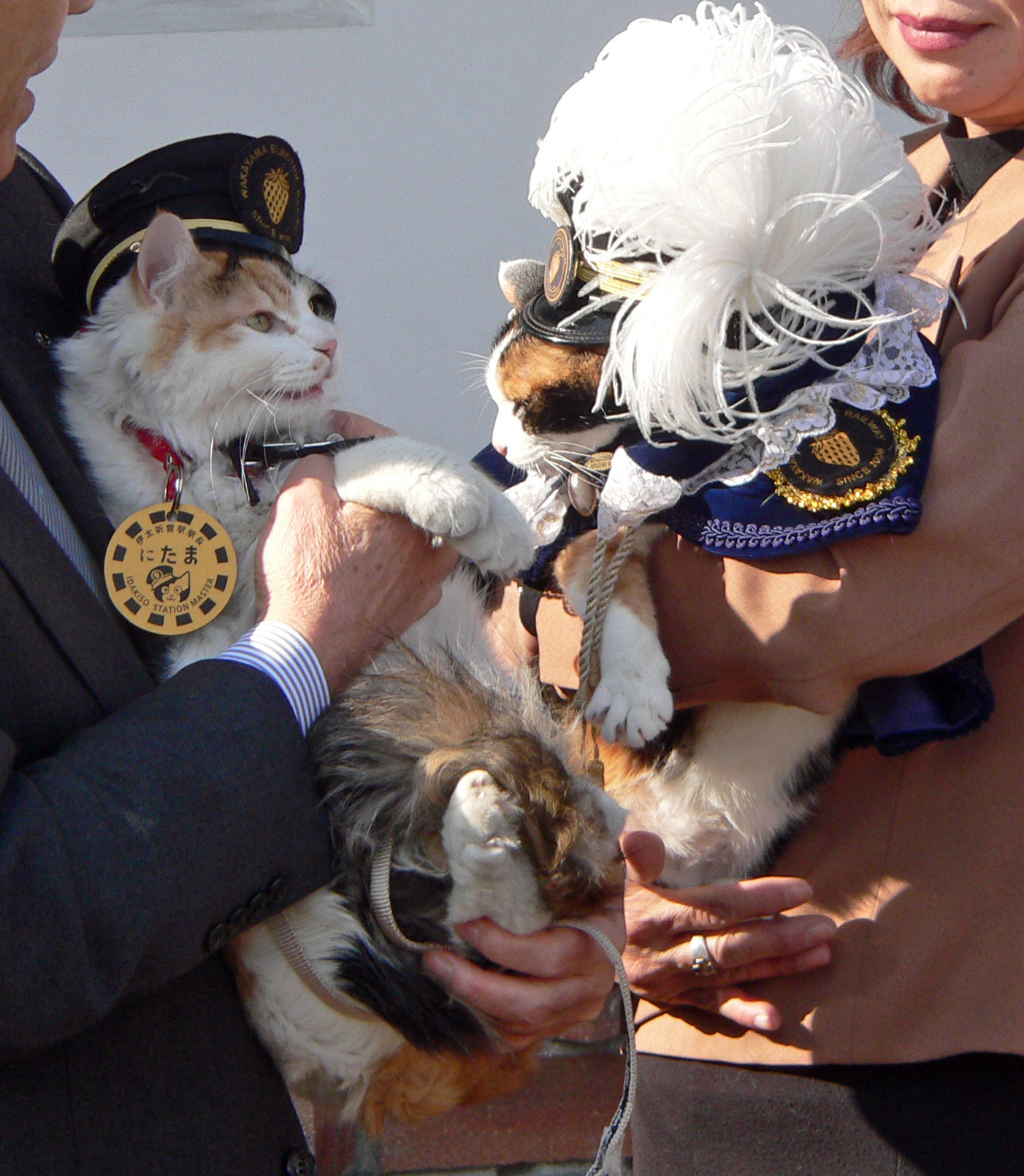 NITAMA, the stationmaster of Idakiso Station (left) and Tama, the stationmaster of Kishi Station (right), Wakayama Electric Railway, Wakayama, Japan.